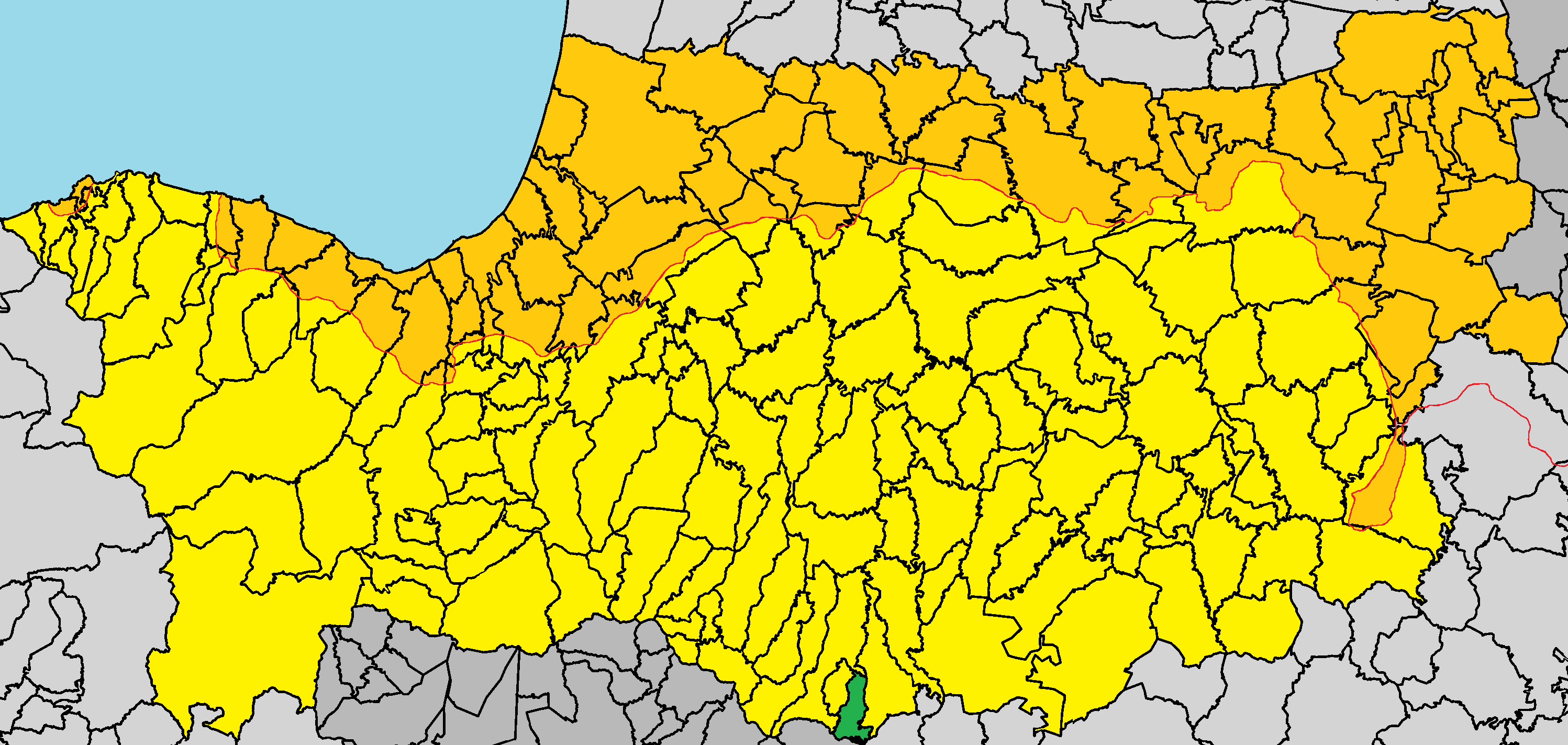 Kampi in Nicosia District.